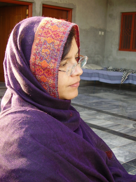 A Pakistani Woman in national dress